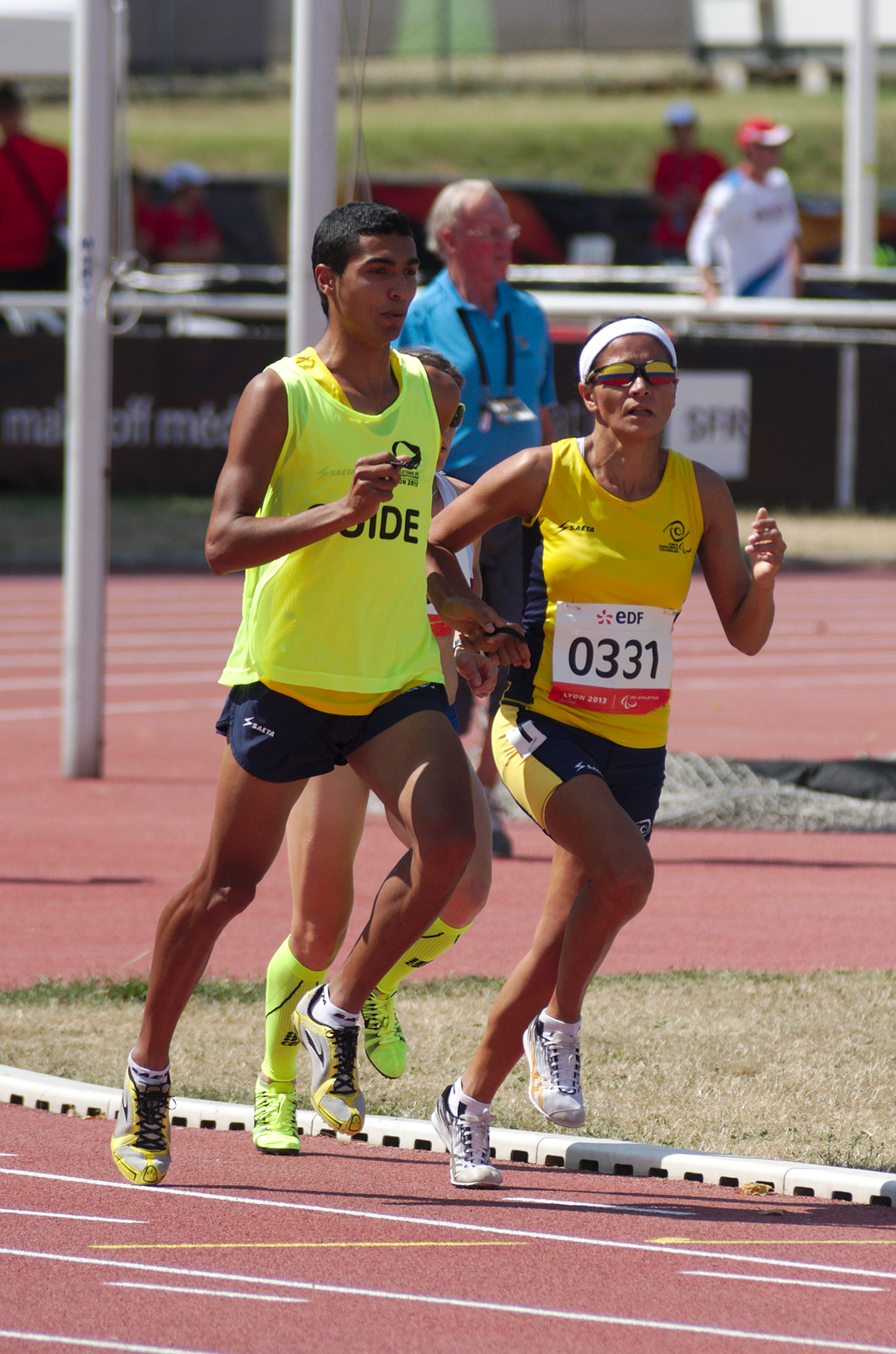 Maritza Arango Buitrago and Jonathan Sanchez Gonzalez of Colombia during the Women's 1500m - T12 first semifinal